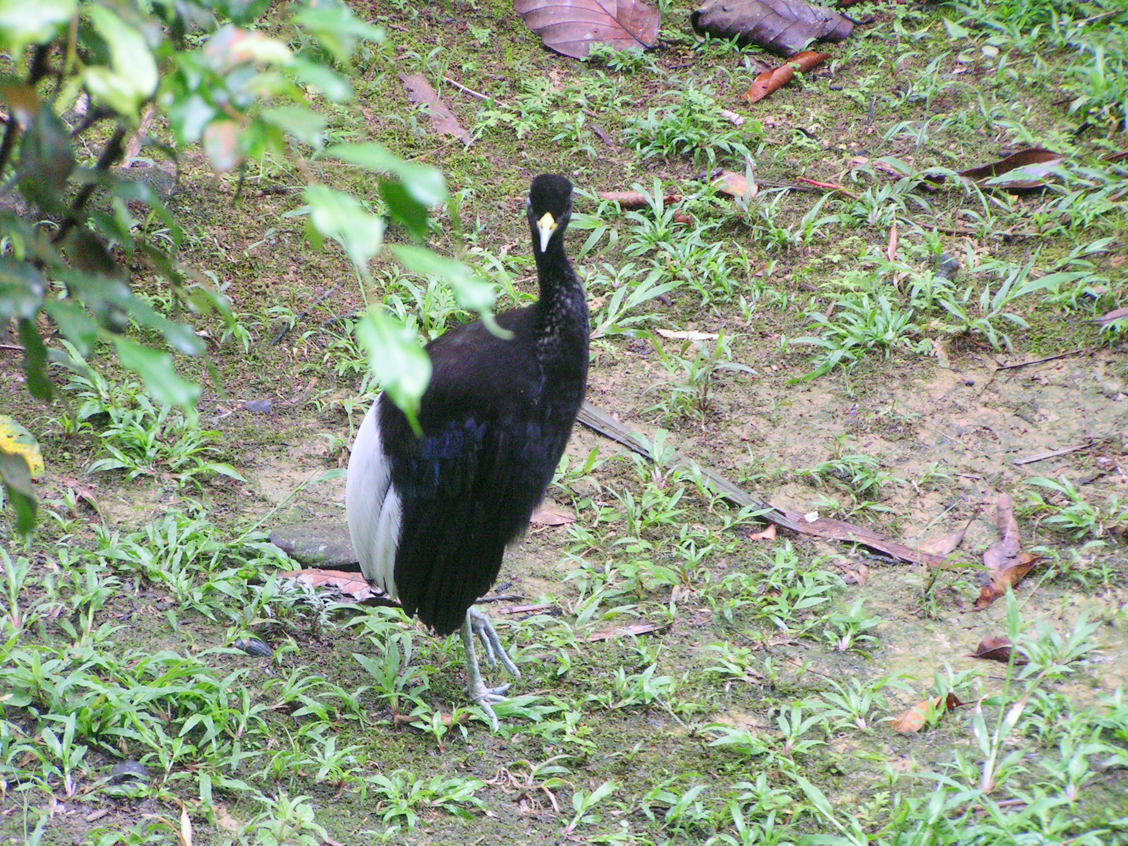 Pale-winged Trumpeter (Psophia leucoptera) at Explorama Napo Lodge, Napo River, Peru. Appears to be domesticated.